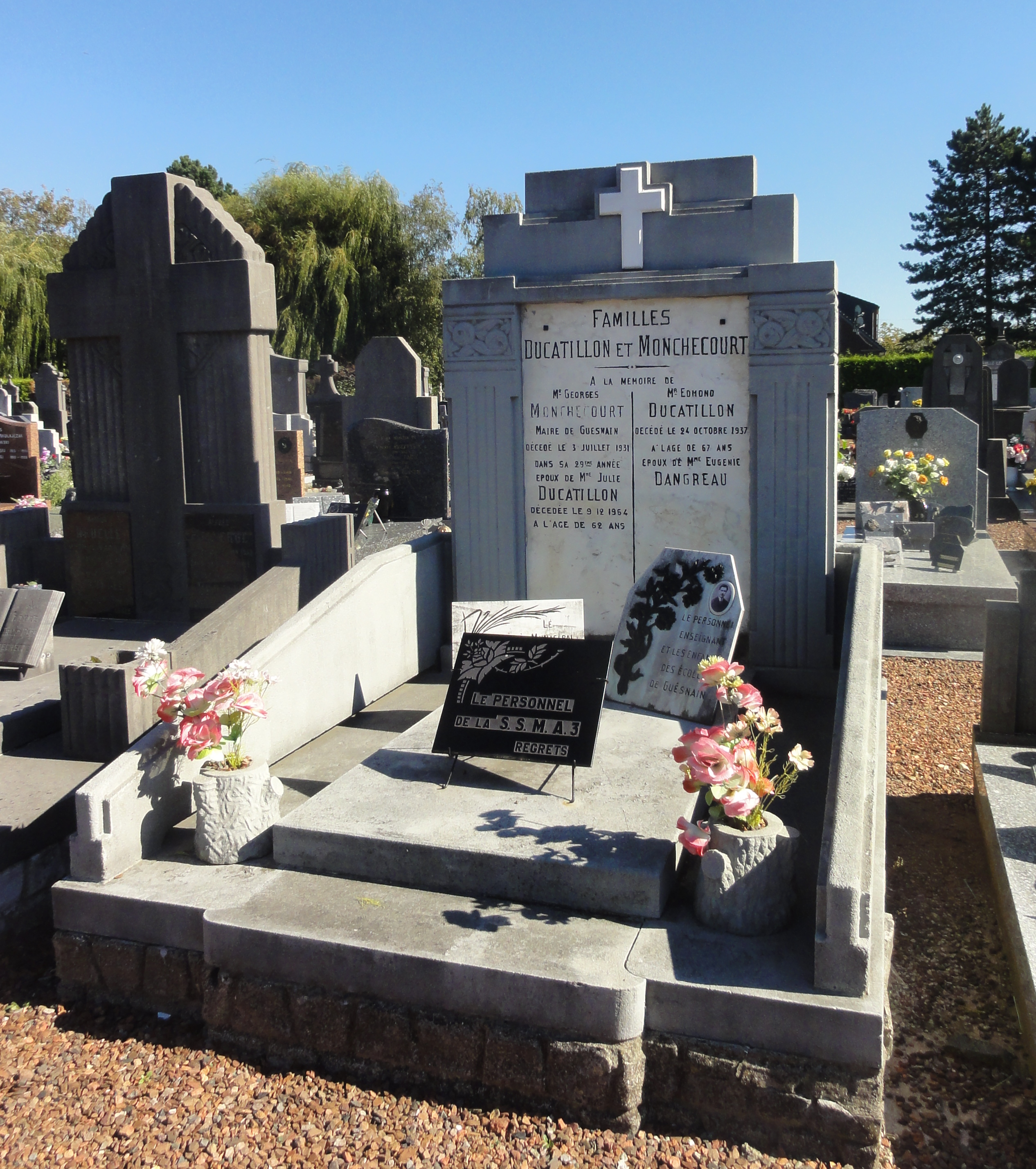 Grave of Q69351312 Depicted place: Q69289298